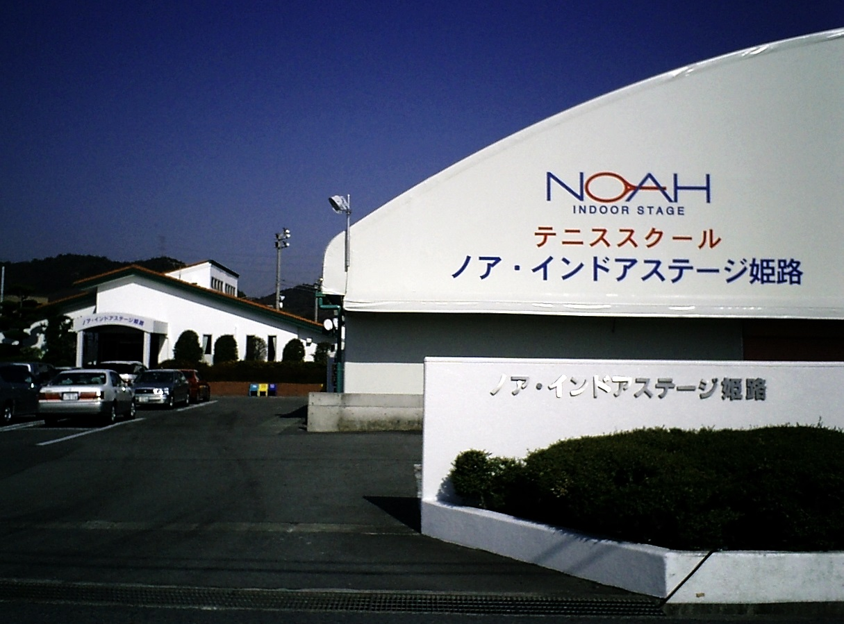 Noah Indoor Stage Himeji (ノアインドアステージ姫路) テニススクール・ノア姫路